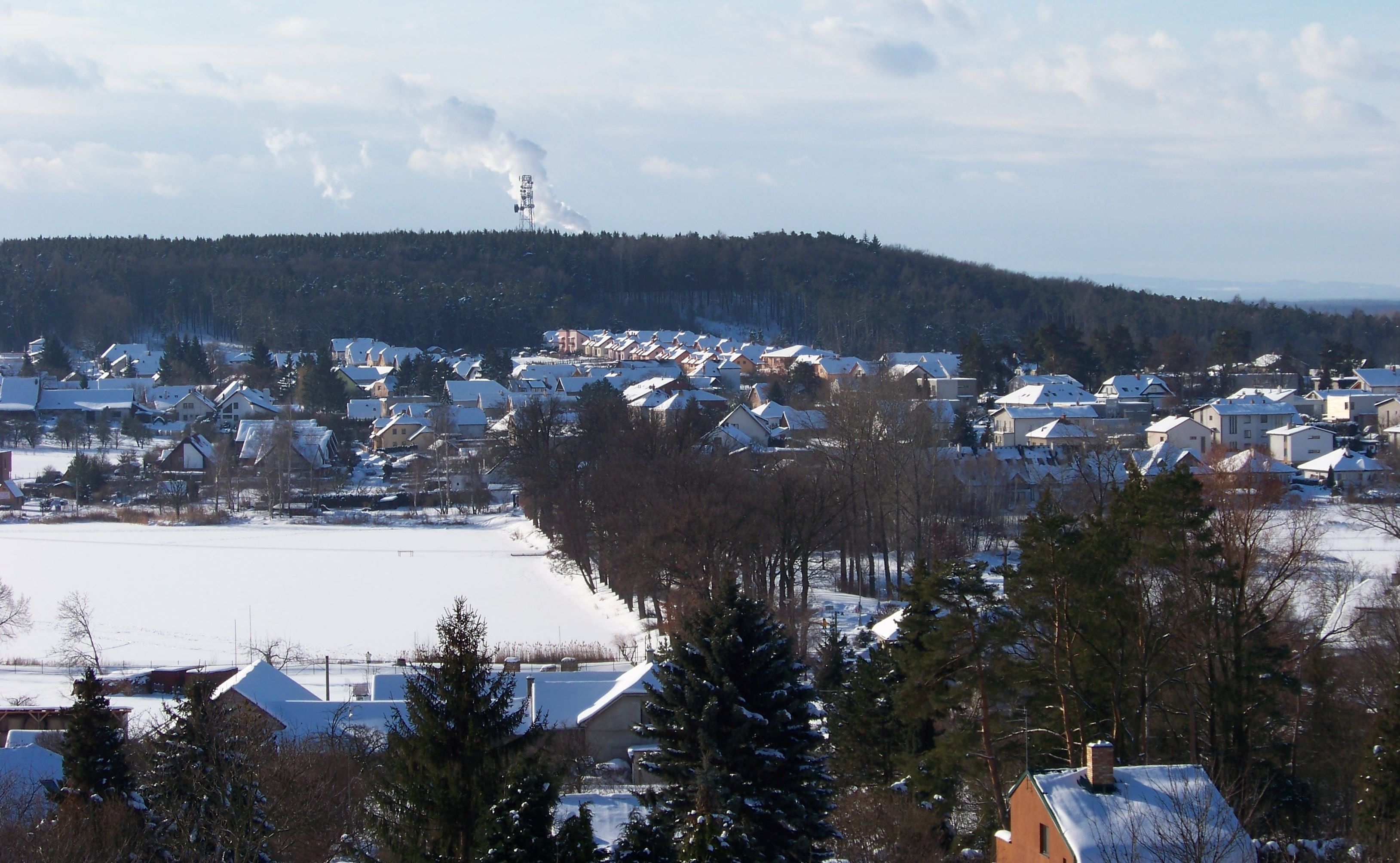 Hradec Králové-Roudnička, the Czech Republic. A view from Zámeček Street (Hradec Králové-Třebeš).